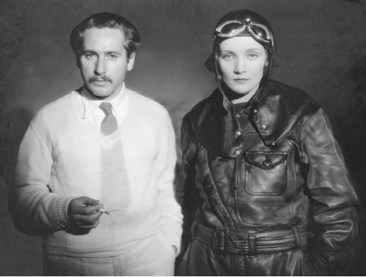 Dishonored (1931), on set, black and white photo, left to right: Josef von Sternberg, Marlene Dietrich. Paramount Pictures